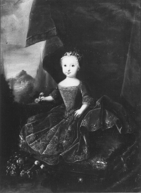 Portrait of Maria Amalia of Saxony (1724-1760)